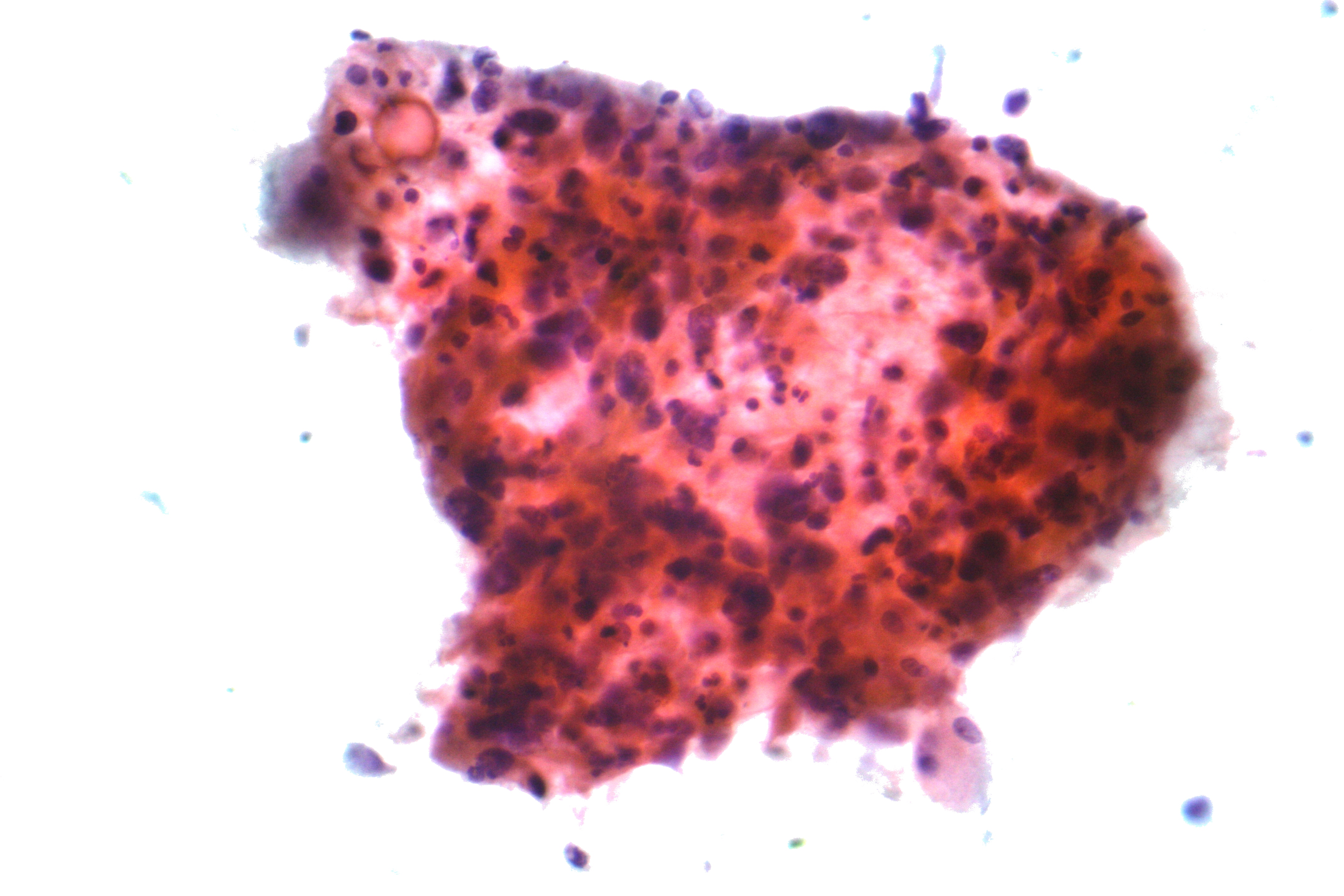 Micrograph of squamous carcinoma, also squamous cell carcinoma. FNA specimen of a lung lesion. Pap stain. Clinicoradiological findings in the case suggested it was a lung primary, i.e. lung cancer. The micrograph show a 3-dimensional cluster of cells with the nuclear changes of malignancy (variation in nuclear size, staining and shape), and features of squamous differentiation (moderate amount of cytoplasm, small/indistinct nucleoli, nucleus in the cell centre, keratinization). See also Image:Squamous carcinoma lung cytology.gif - animation, this image and another one with another focal plane. Image:Small cell lung cancer - cytology.jpg